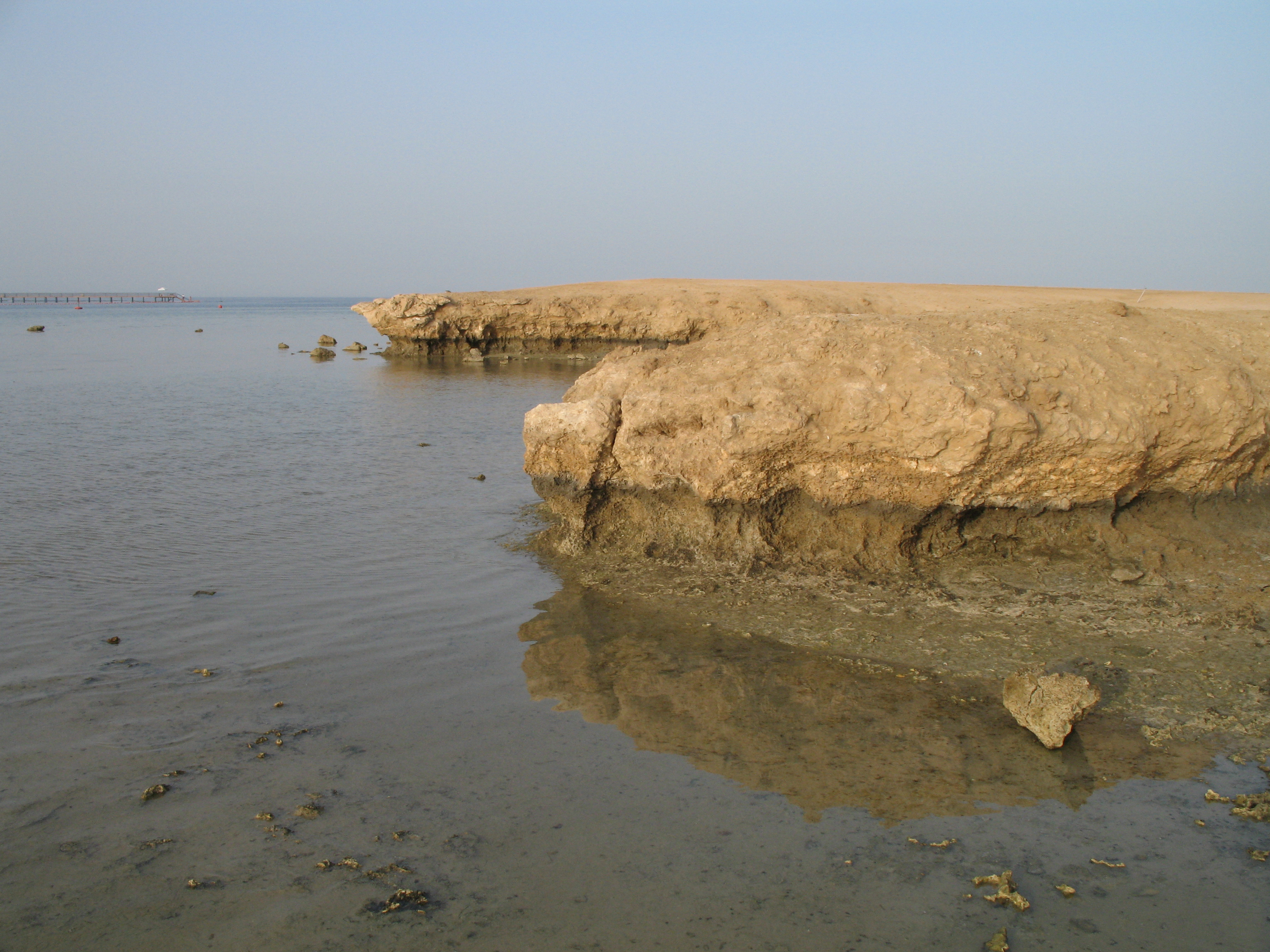 Red Sea coast near Port Ghalib (Marsa Alam, Red Sea, Egypt)